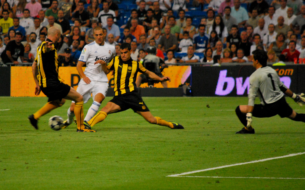 Gerardo Alcoba (Peñarol) taking the ball from Karim Benzema (Real Madrid).